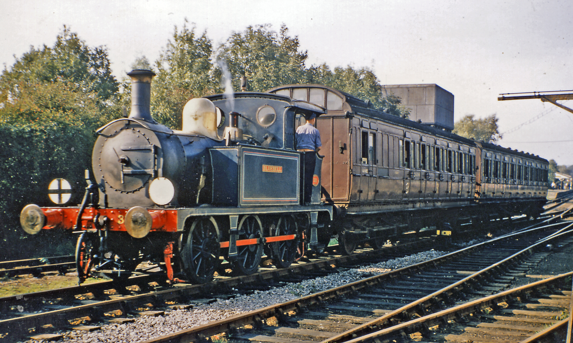 Ex-SE&CR 'Bluebell' on Bluebell Railway at Sheffield Park. View northward, towards Sheffield Park station, Horsted Keynes and (formerly) East Grinstead. SE&C No. 323 'Bluebell' was a Wainwright P class 0-6-0T, built 7/1910, withdrawn by BR as No. 31323 in 6/60 and acquired by the Bluebell Railway as one of their very first locomotives, has brought a train of ex-SE&C 'Birdcage' stock from Horsted Keynes.